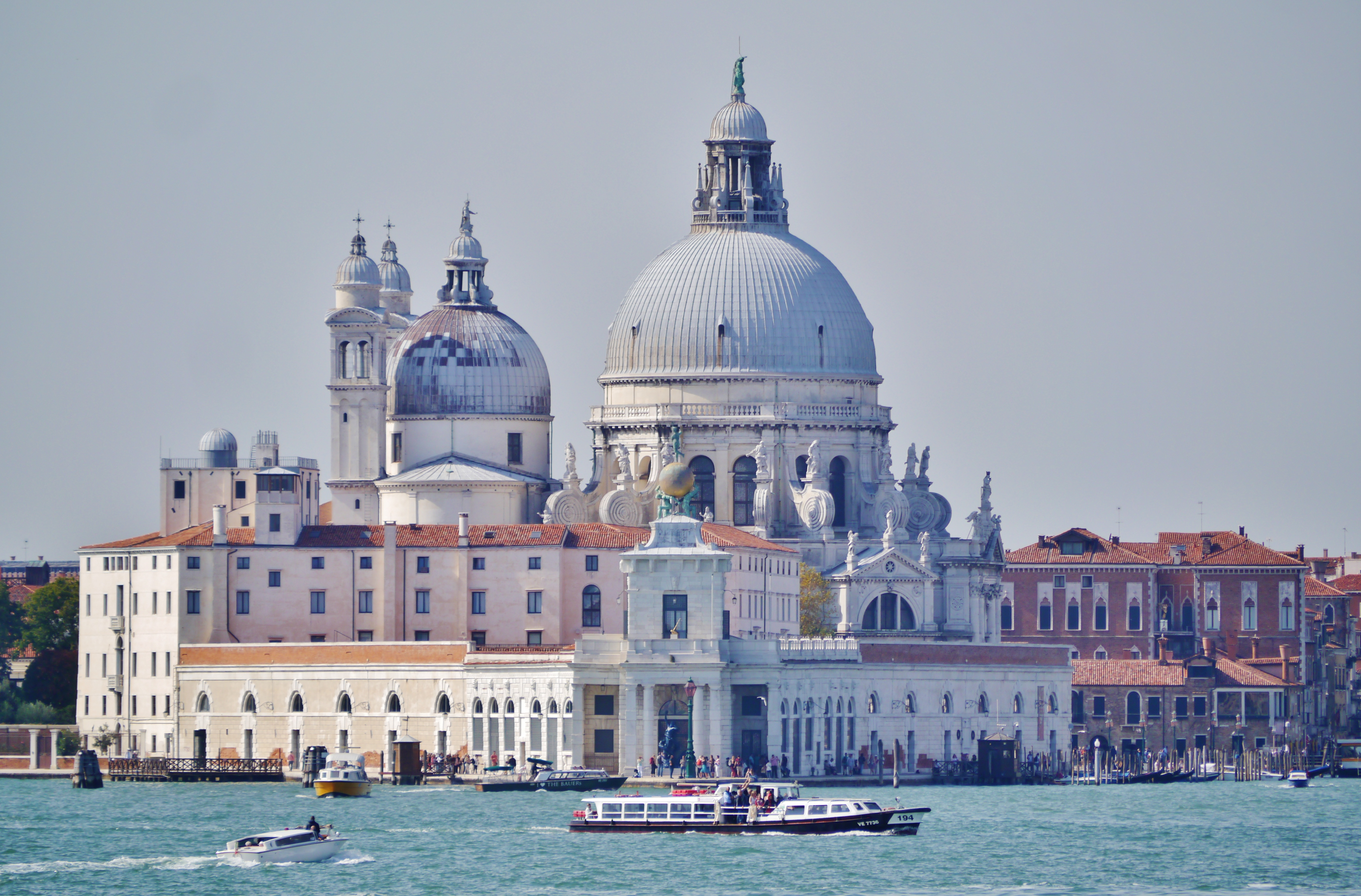 View from the Riva degli Schiavoni to the Basilica of St. Mary of Health, Venice, Metropolitan City of Venice, Region of Veneto, Italy